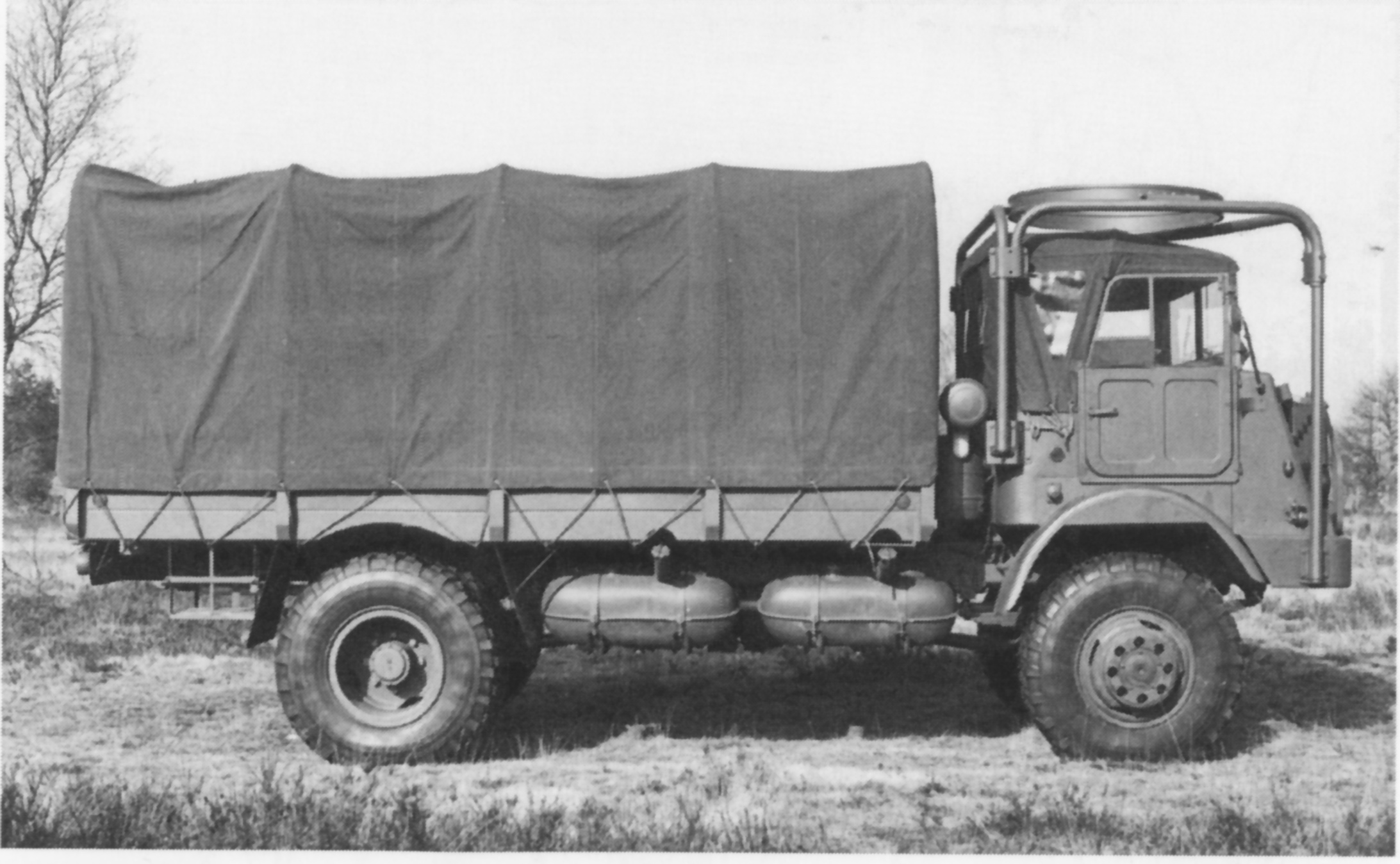 Daf YA 414 Prototype (went into production, under DAF license as Pegaso 3045) Watch: de double wheels on the rear axle.